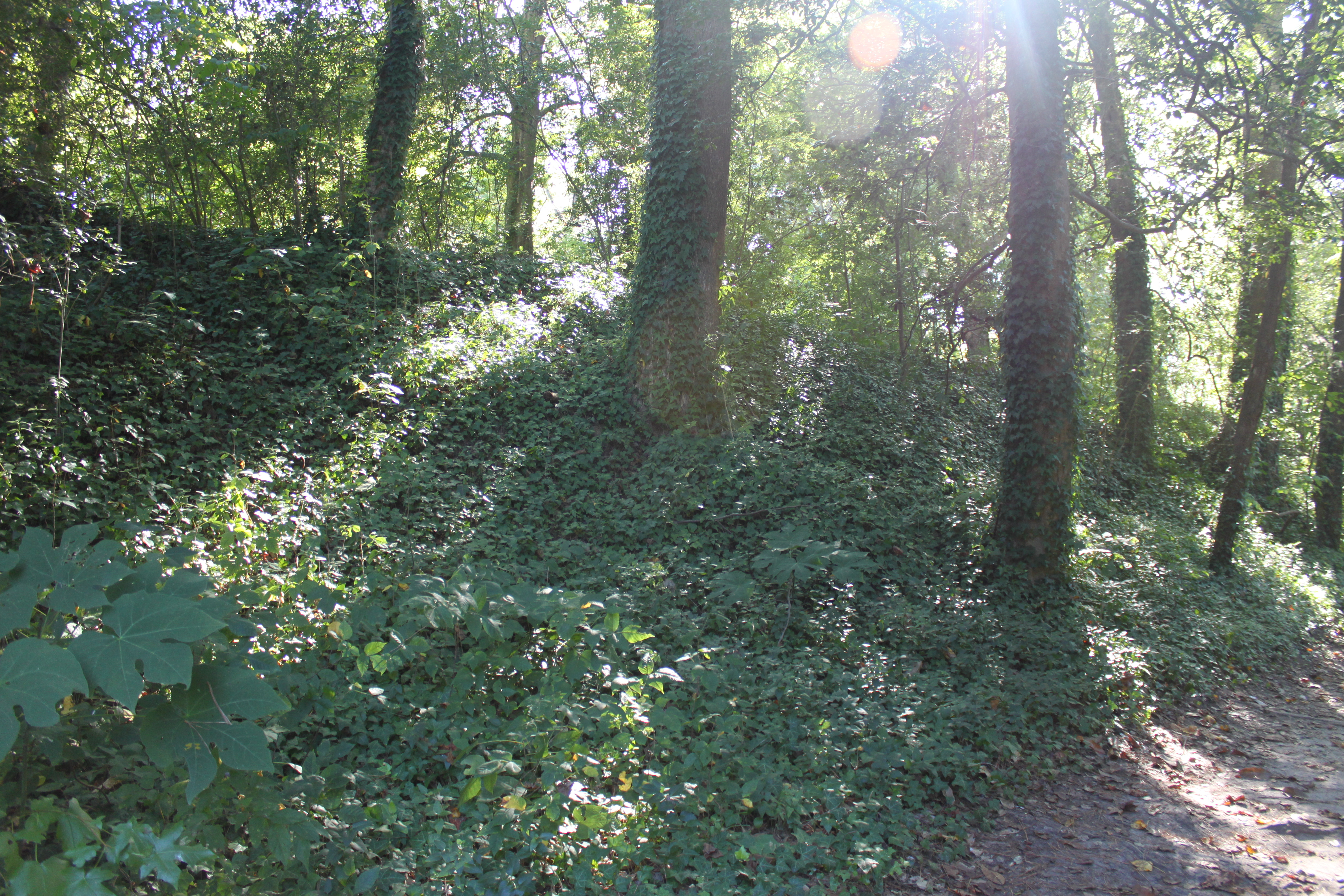 Fort Boykin Archaeological Site (44IW20), Fort Boykin Trail Smithfield